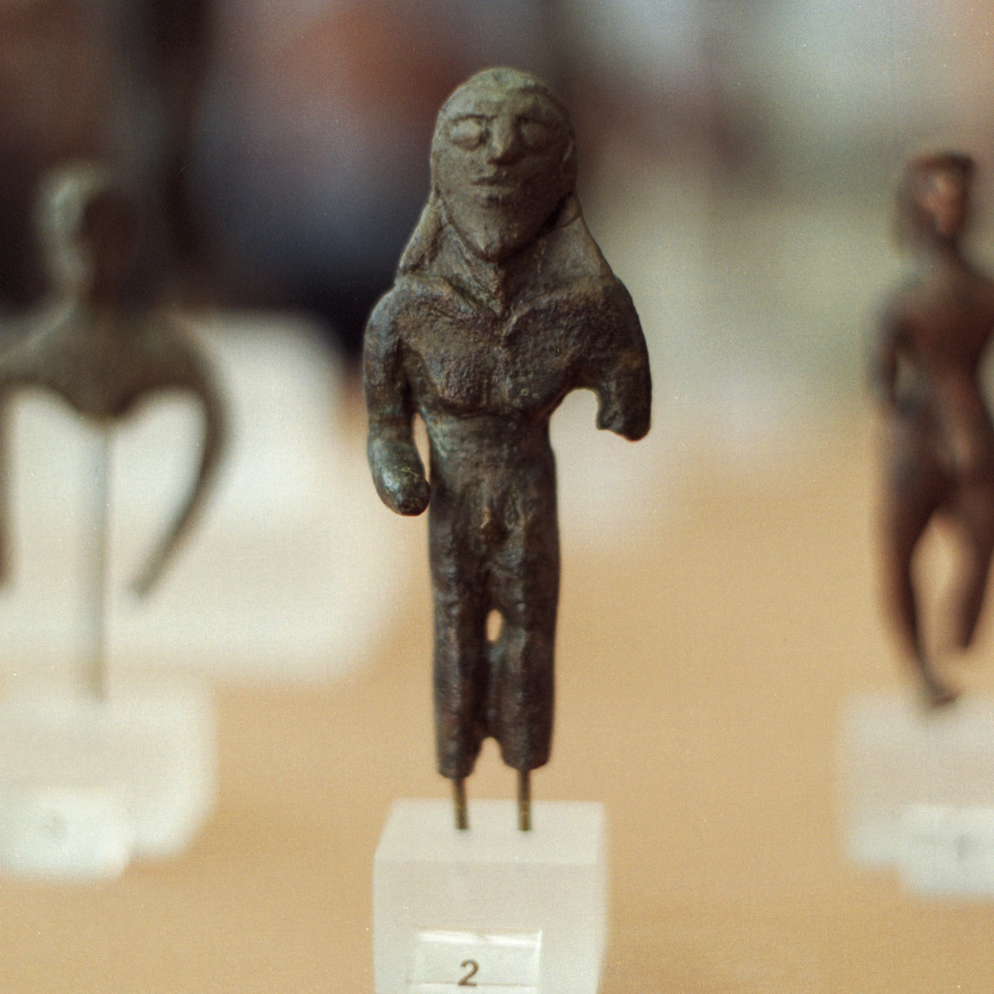 Charioteer (?), small bronze, Greek geometric period. Archaeological Museum of Delphi.